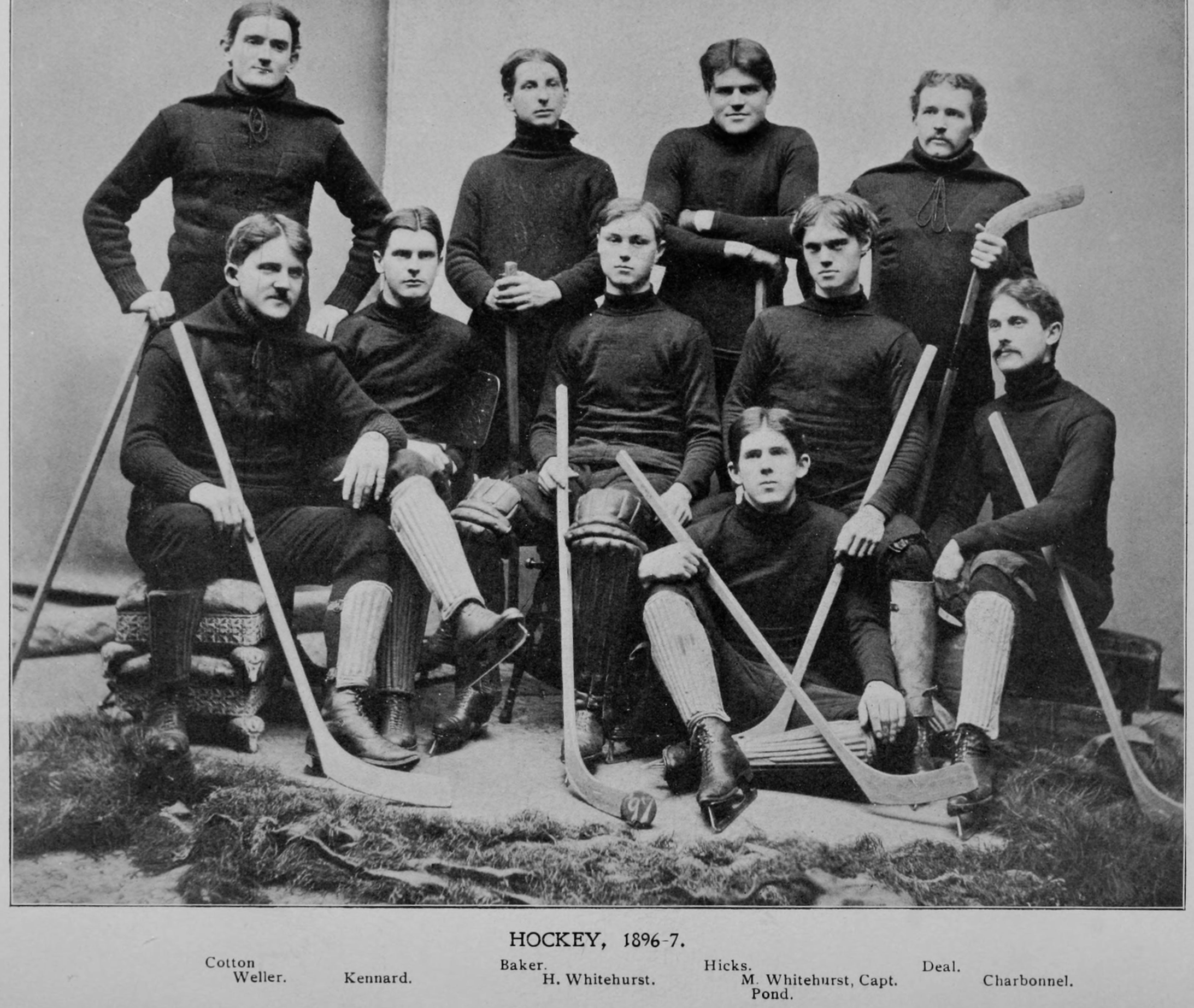 University of Maryland ice hockey team in 1896–1897. Henry Andrews Cotton, Albert D. Baker, George Luther Hicks, Samuel M. Deal, Franklin Babbitt Weller, Henry Waters Kennard, Jesse Herbert Whitehurst, Milton Morris Whitehurst, Ernest Adolph Charbonnel, William Raddin Pond.